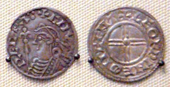 Coin of Cnut_1016_1035_c